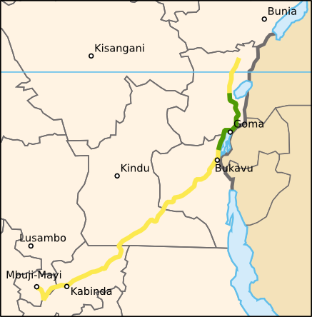 Route nationale 2, Congo-Kinshasa Status of the road Green - usable Yellow - poor usability Red - unusable